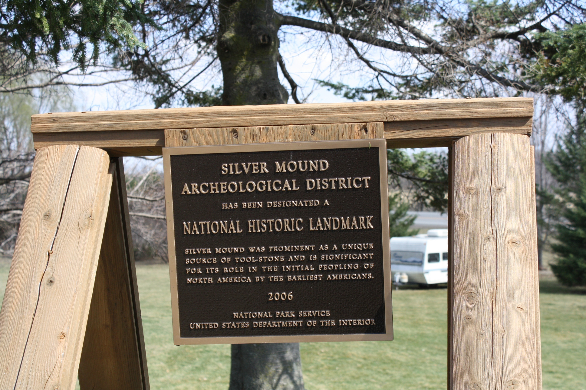 The sign for the Silver Mound Archeological District, a National Historic Landmark near Hixton, Wisconsin.